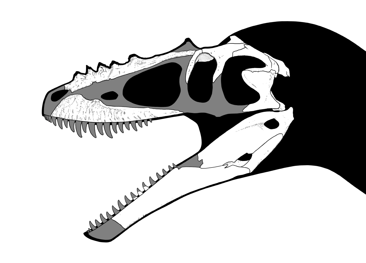 A skull diagram of the tyrannosaur Alioramus remotus. • The known parts of the skull are shown in white. • Based on a skull reconstruction by Tracy L. Ford [1](Used with permission) [1] References ↑ Weishampel, D.B., Dodson, P., & Osmolska, H. (Eds.). The Dinosauria (2nd Edition). Berkeley: University of California Press. Note: I often update my images. If you want to have any of my images on a website, please (if possible) don’t host/save it to the website server. I’d prefer it if the image's Wikimedia URL is used. This means that if I update an image, it will be updated on the site as well. Thanks.